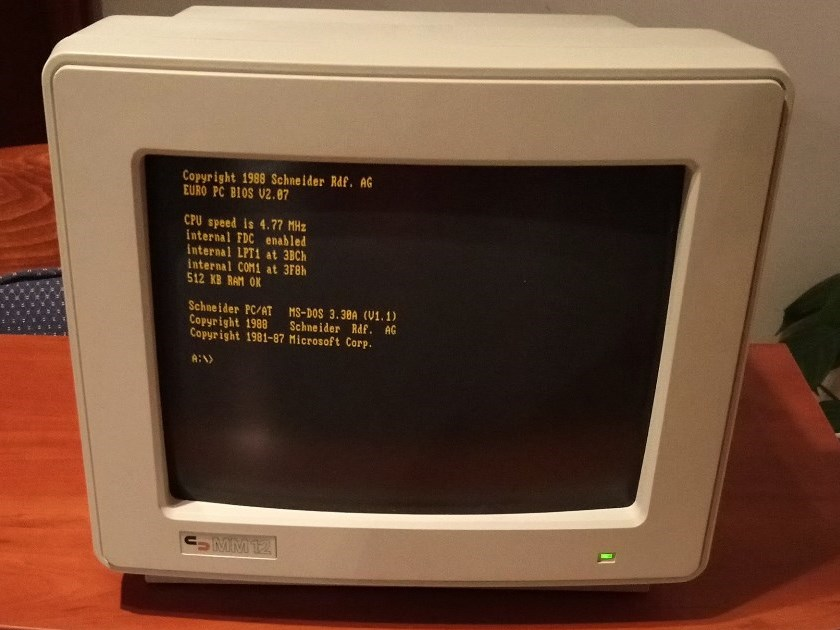 Schneider MM12 monochrome monitor for Schneider Euro PC/XT/AT personal computers